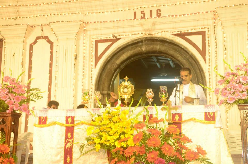 LUZ CHURCH